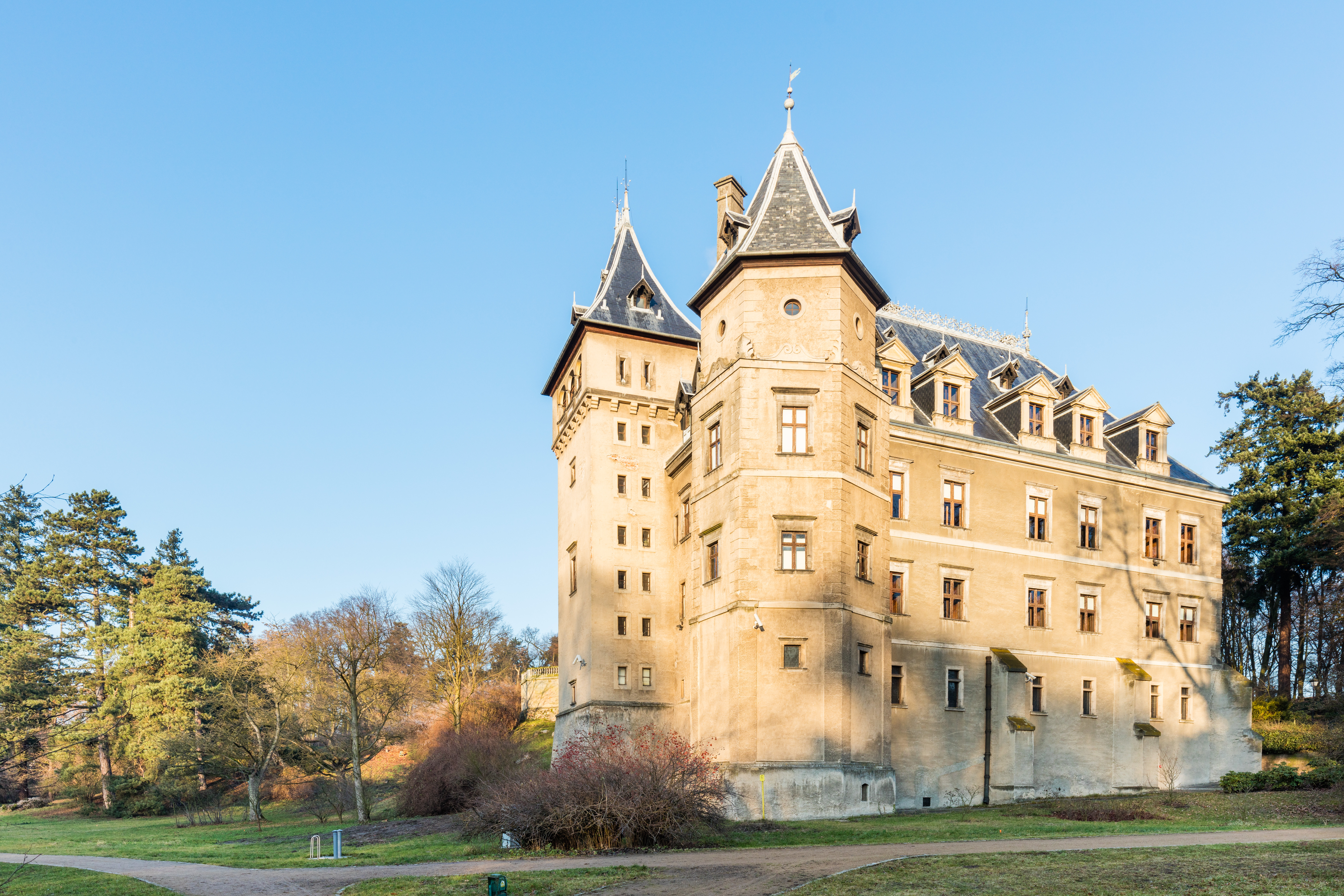 Gołuchów Castle, Greater Poland, Poland IV-73/166/54.